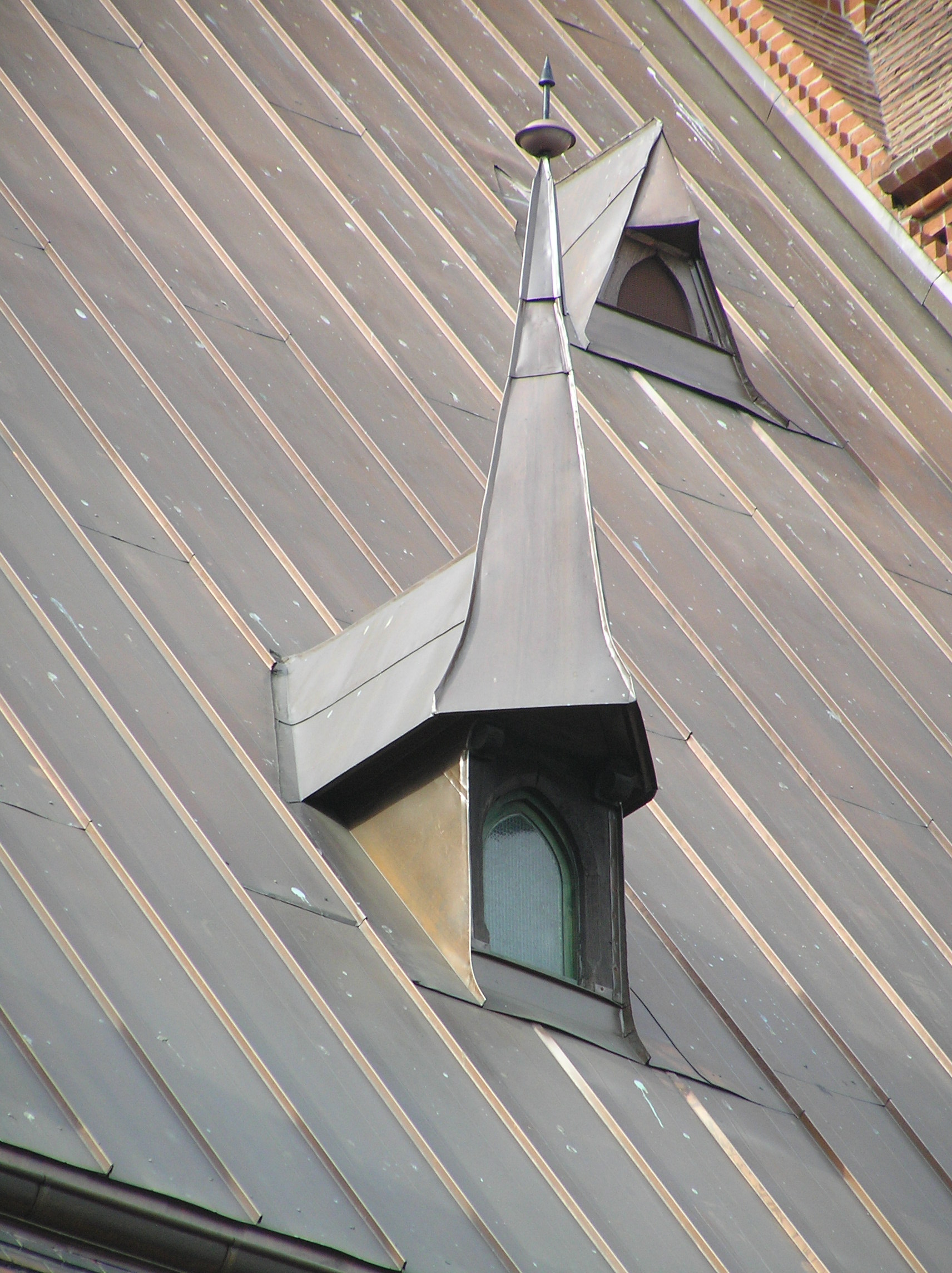 Toruń, St. Catherine garrison church, roof detail.